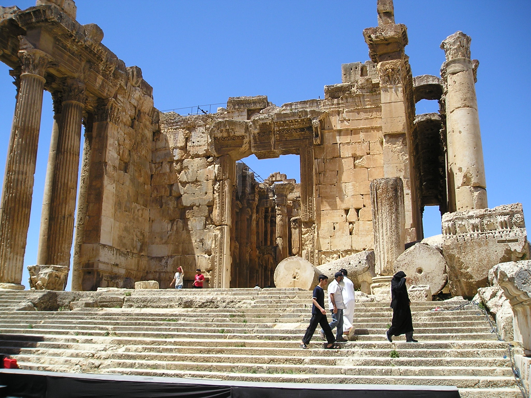 Baalbek, Lebanon - entrance into the Bacchus Temple